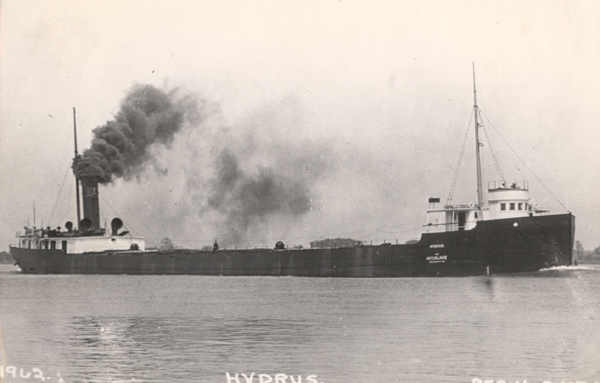 Photo of the SS Hydrus cira 1913. This ship sank on November 11, 1913 during the Great Lakes Storm of 1913